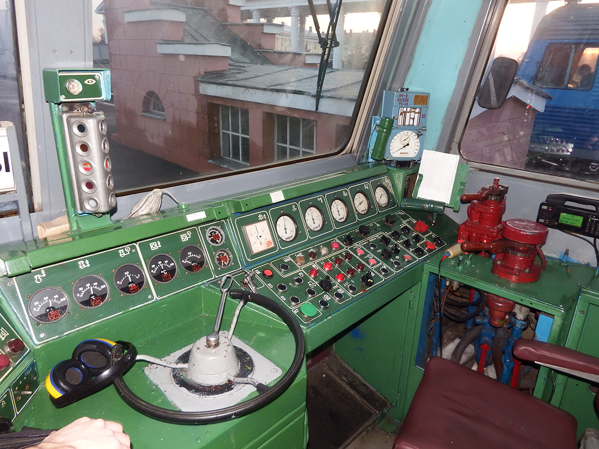 Driver's cabin of diesel railcar ACh2-055